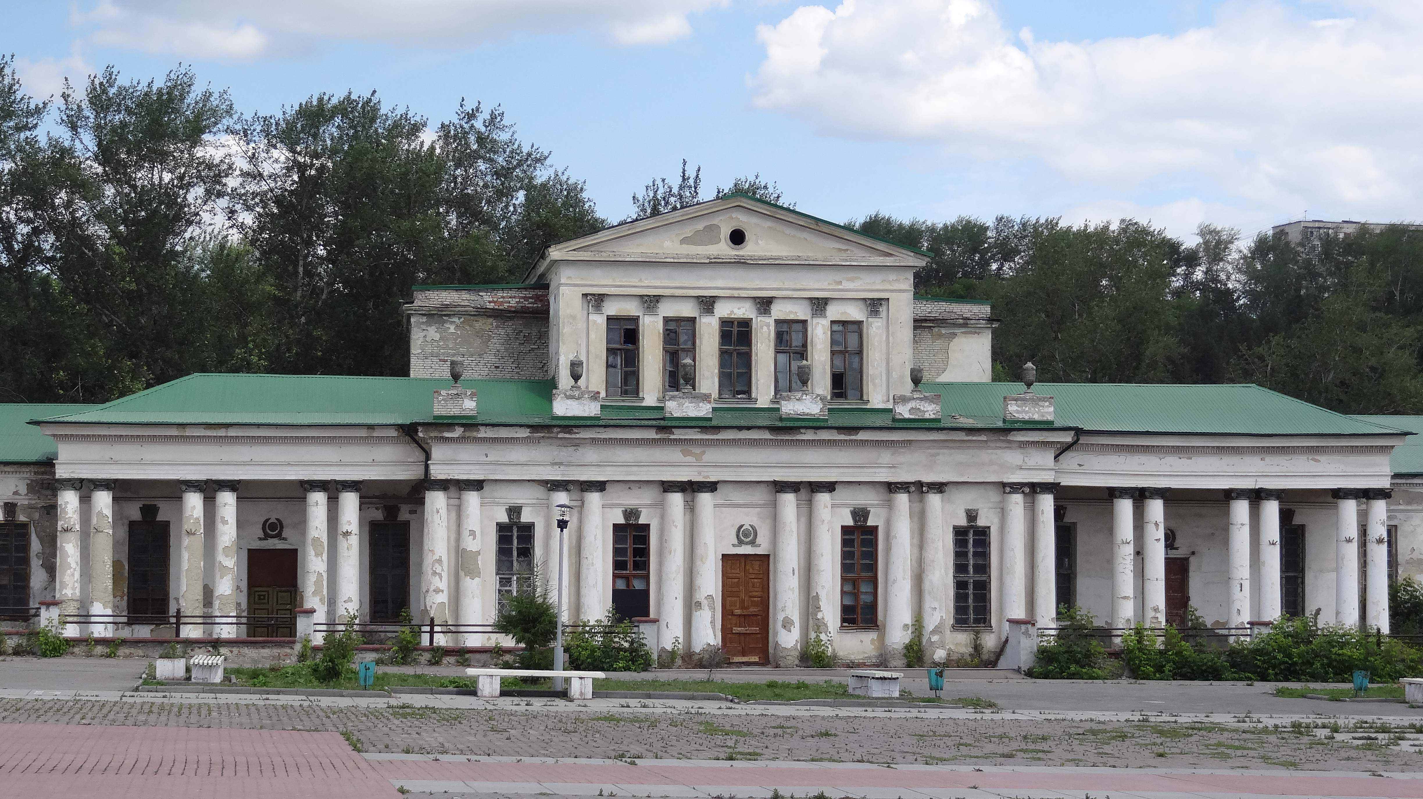 Warehouses plant in Kamensk-Uralsky, Sverdlovsk oblast, Russia Mikhail Pavlovich Malakhov (1781–1842) Description Russian architect Date of birth/death17811842Location of birth/deathChernigov GovernorateYekaterinburgWork locationYekaterinburg, Kamensk-UralskyAuthority control : Q4276596